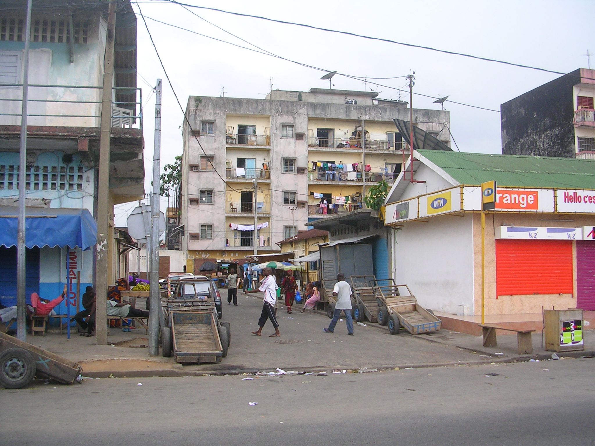 Abidjan centre of city.